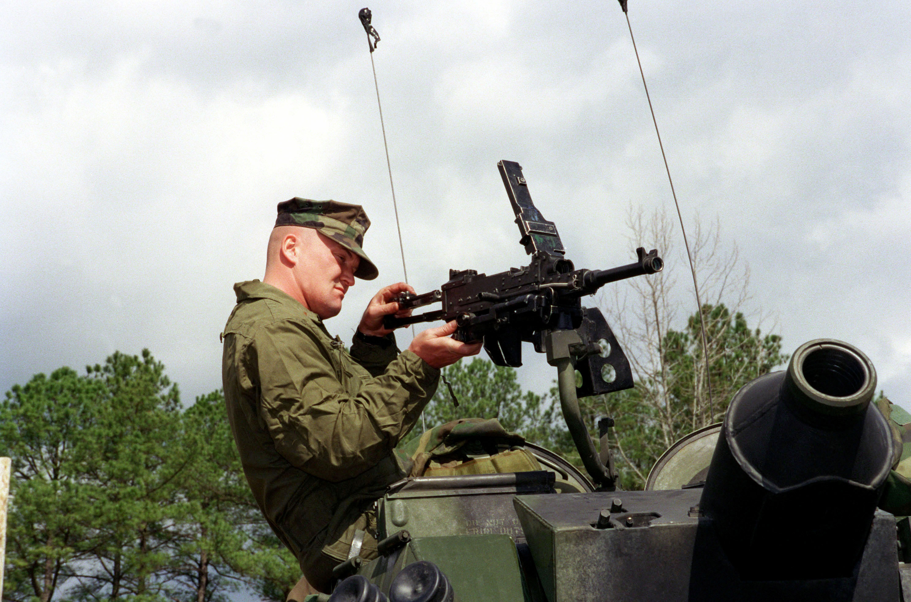 Marine Light Armored Vehicle (LAV) Commander, Charlie Company, 2nd Lieutenant Gibson, performs maintenance on an M240 CO-AX machine gun, mounted on a LAV during the 2nd Light Armored Reconnaissance Re-qualification (LAR-REQUALEX) '98. (Released to Public) Location: Fort Pickett, Virginia (VA), U.S.